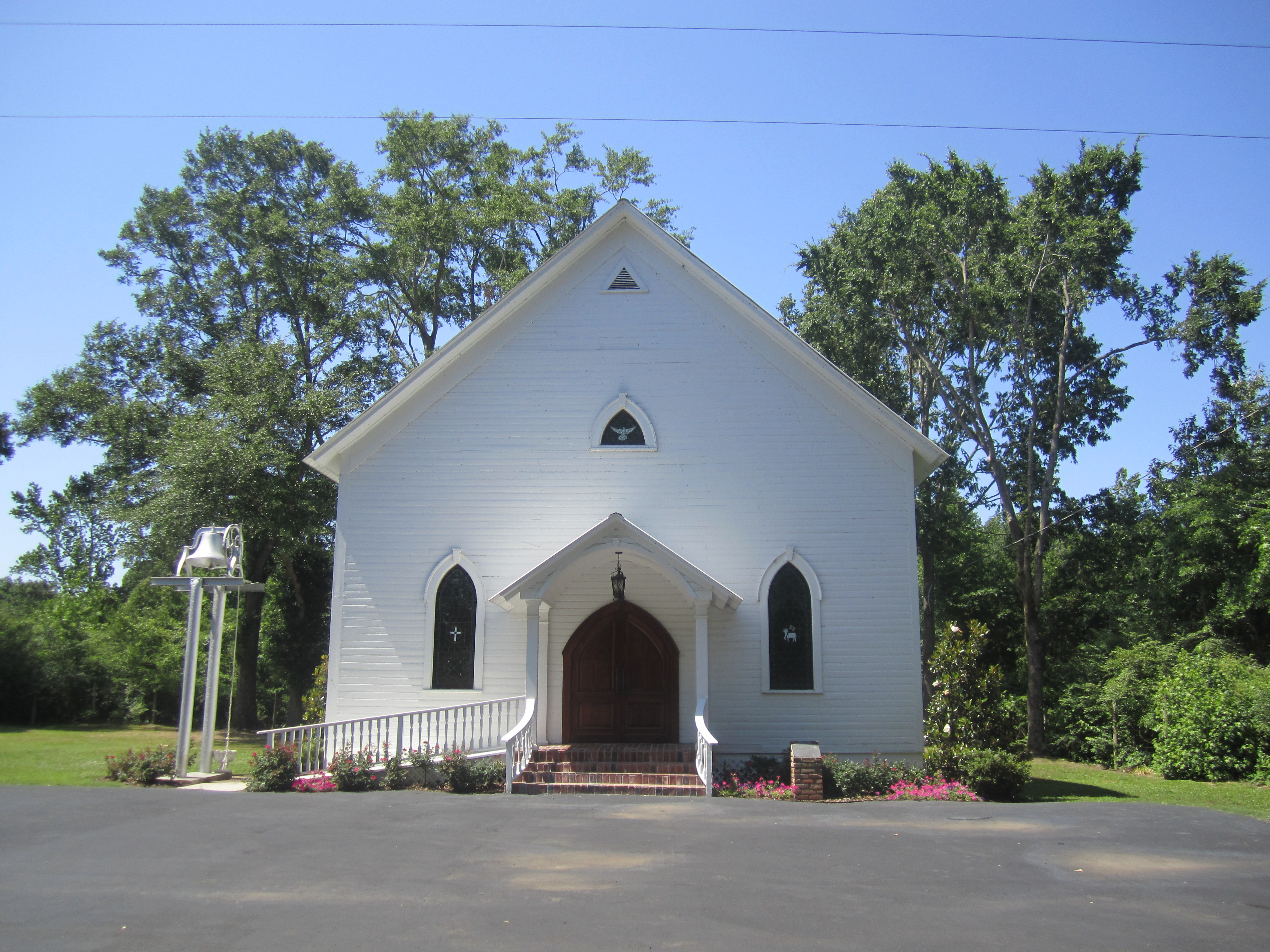 I took photo with Canon camera in south Webster Parish, LA.